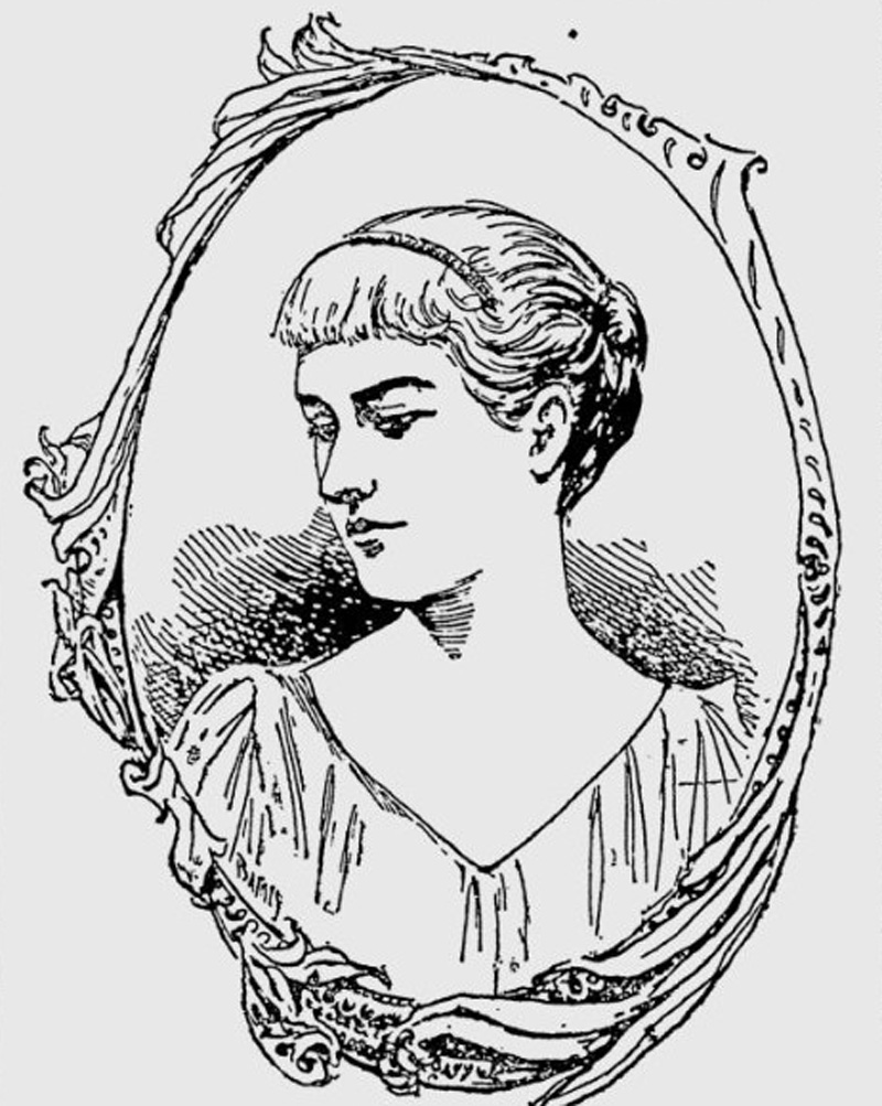 Lucile Carter, survivor of the Titanic, aged 17 when her name was Lucile Polk. This sketch was in the social pages of a Baltimore newspaper in 1892.